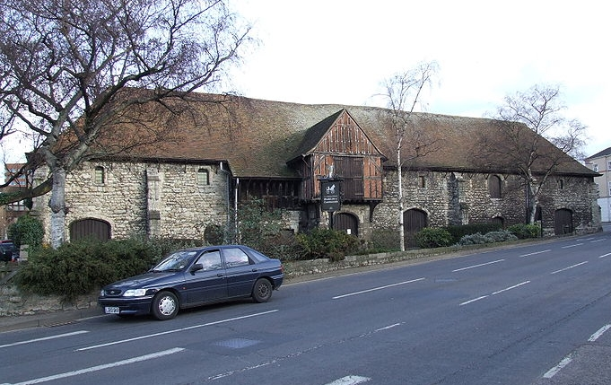 Maidstone.Tithe barn to the Archbishops Palace, now used as a Carriage museum. Dated 1398.